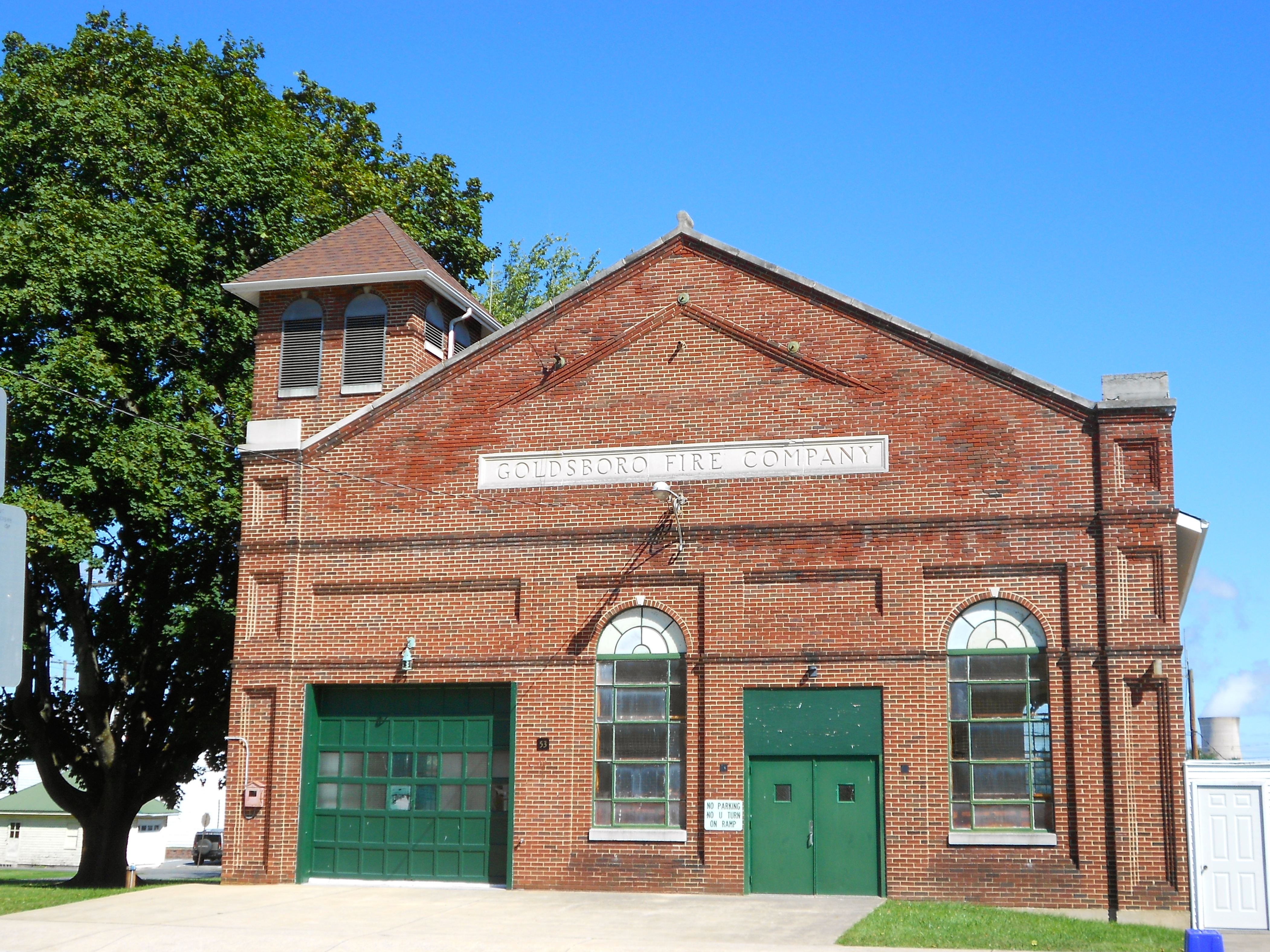 Fire Department in the Goldsboro Historic District The historic district was listed on the NRHP on June 14, 1984 and is roughly bounded by North, 3rd, Fraser, and Railroad Streets, in Goldsboro, York County, Pennsylvania